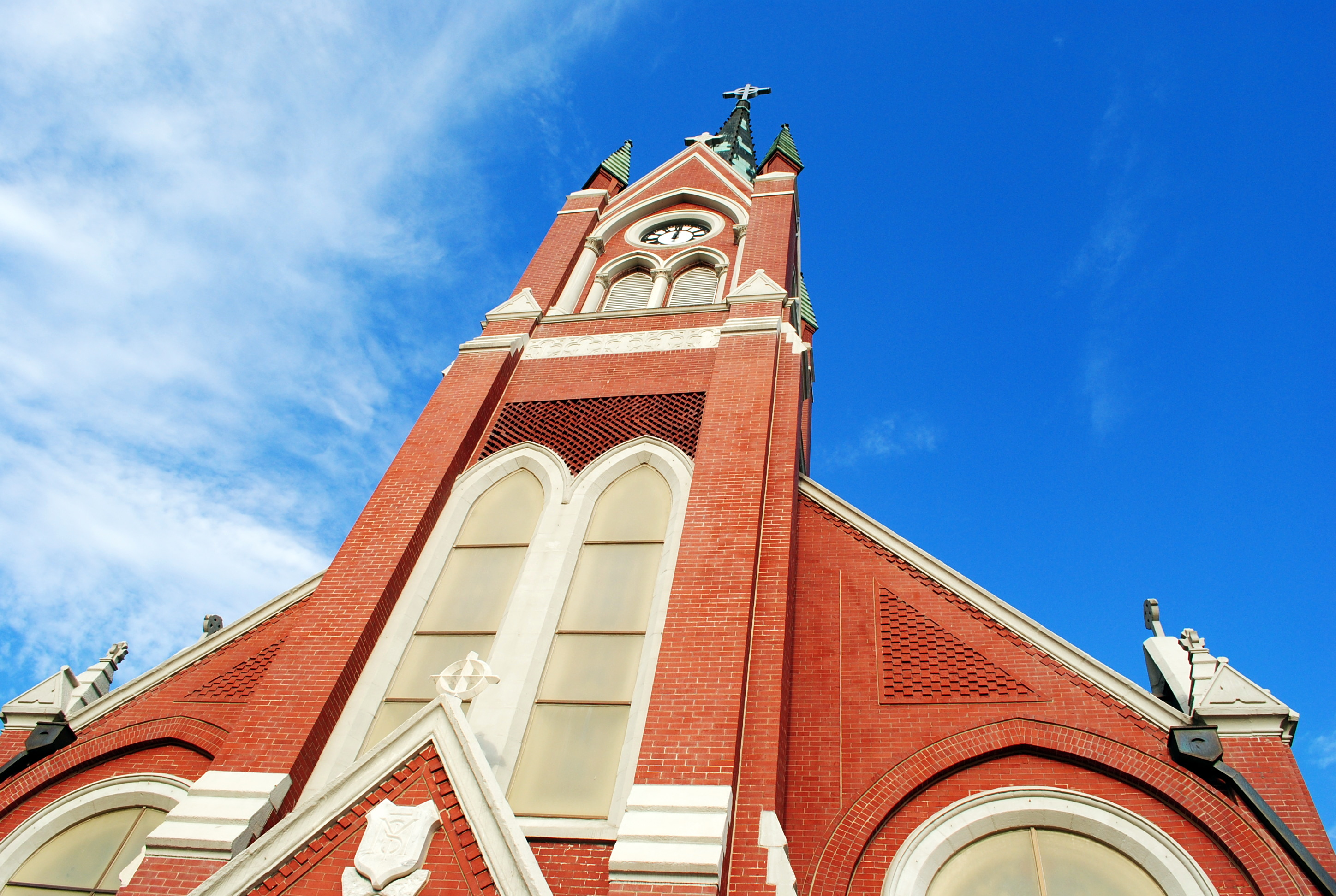 Steeple, St Matthew's Church, Monroe, Louisiana